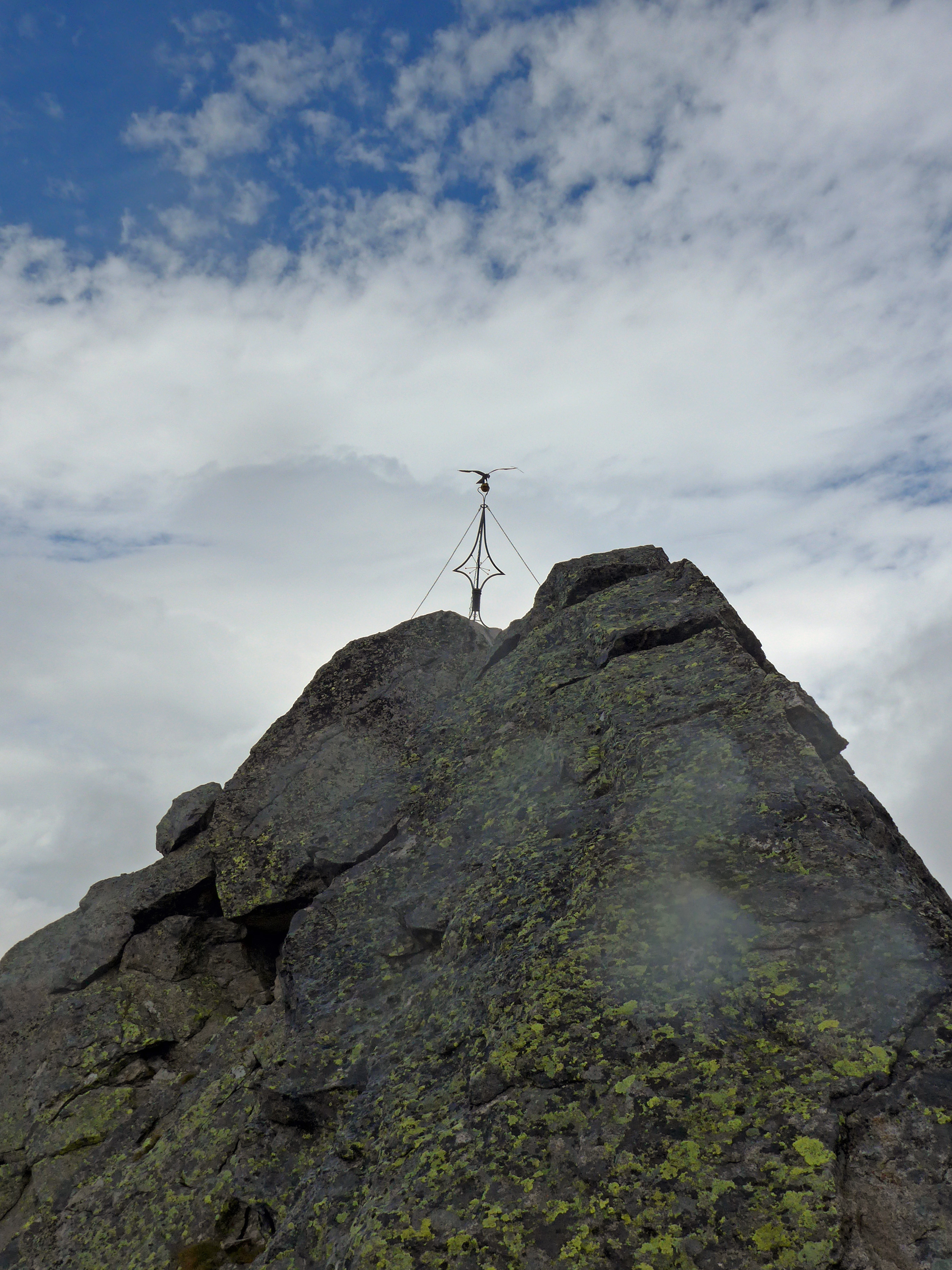 Summit rock and cross of Achternock from south